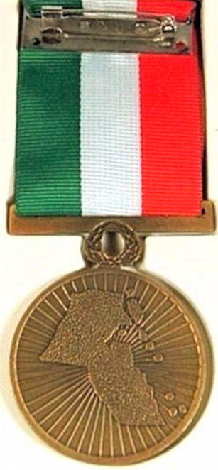 Reverse of Kuwait campaign medal for 1990-91 Gulf War